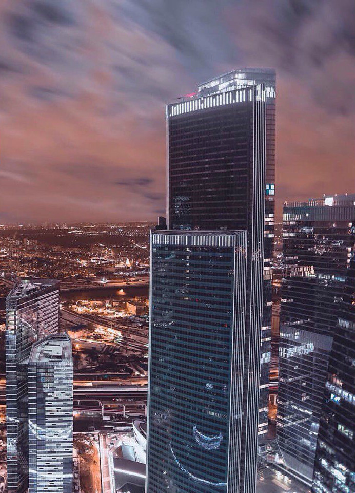 Eurasia Tower in Moscow